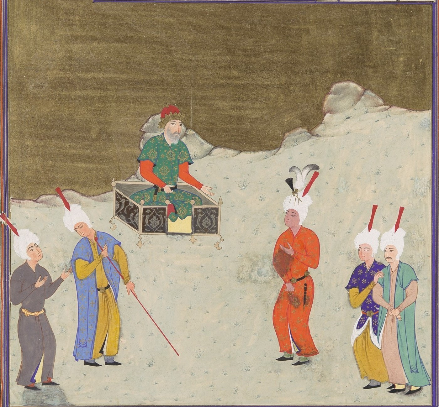 Folio from an illustrated manuscript; Codices